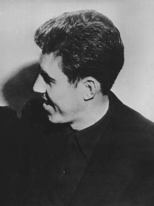 1952 Press Photo Katy Rodolph and Paul Wegeman, of the American Olympic Squad